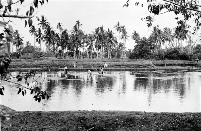 In an effort to fight malaria, fishing ponds are sprayed with a mixture of paris green and soil to suffocate the larvae of the Anopholes. Tandjoenpriok, West-Java